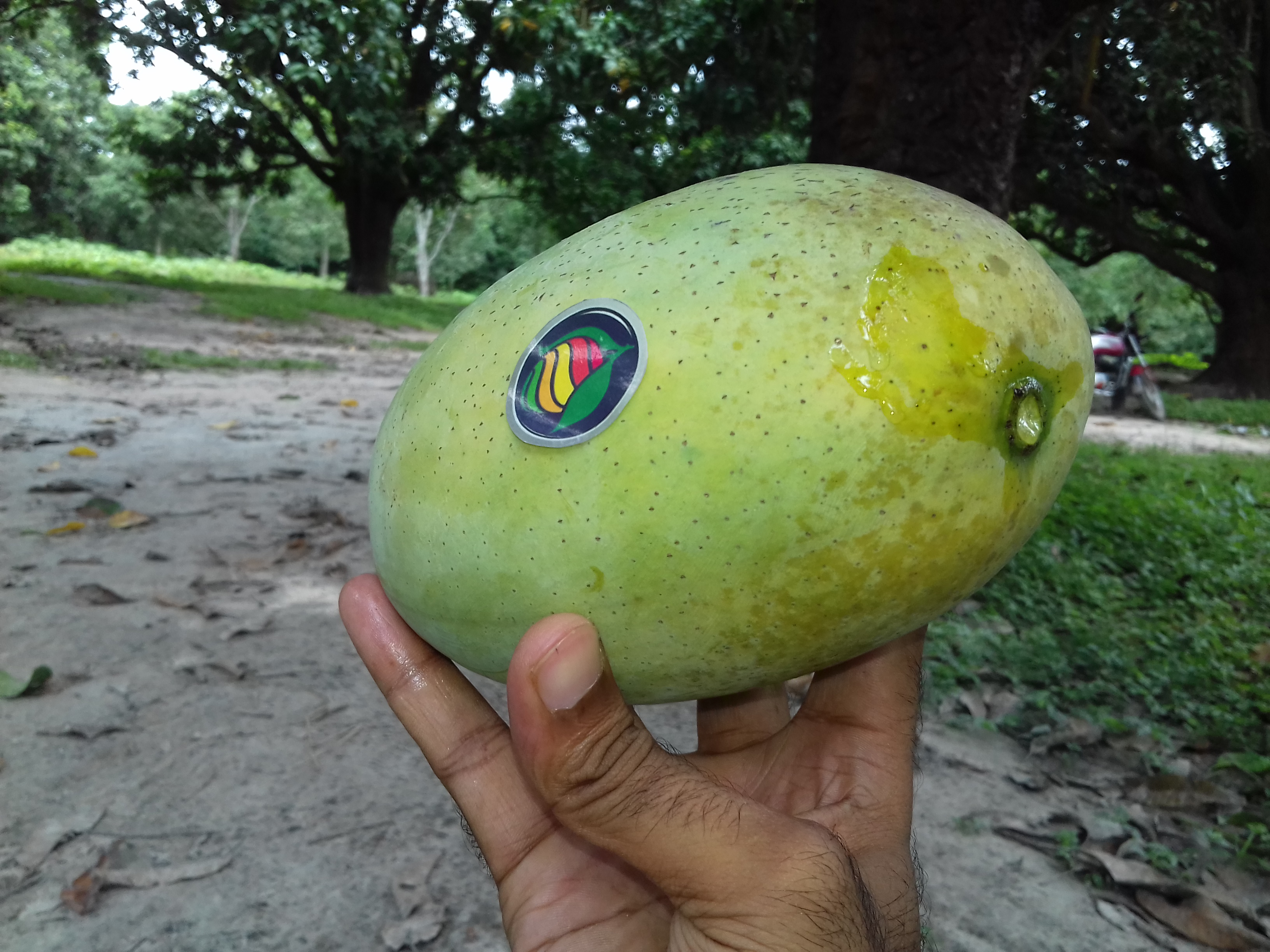 Fazli Mango of Bangladesh